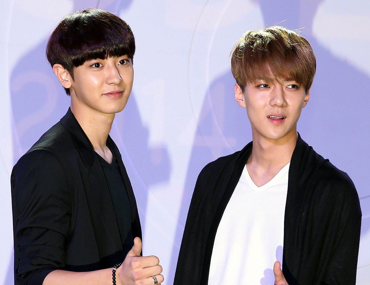 Fashion Kode 2014 July 16, 2014 aT Center, Seocho-gu, Seoul Ministry of Culture, Sports and Tourism Korean Culture and Information Service ( Official Photographer: Jeon Han This official Republic of Korea photograph is licensed as free content, so while restrictions such as personality or privacy rights may apply, in general, manipulations are allowed. If you want a photograph without a watermark, you may ask via Flickr e-mail. 패션코드 2014 2014-07-16 aT 센터 문화체육관광부 해외문화홍보원 코리아넷 전한